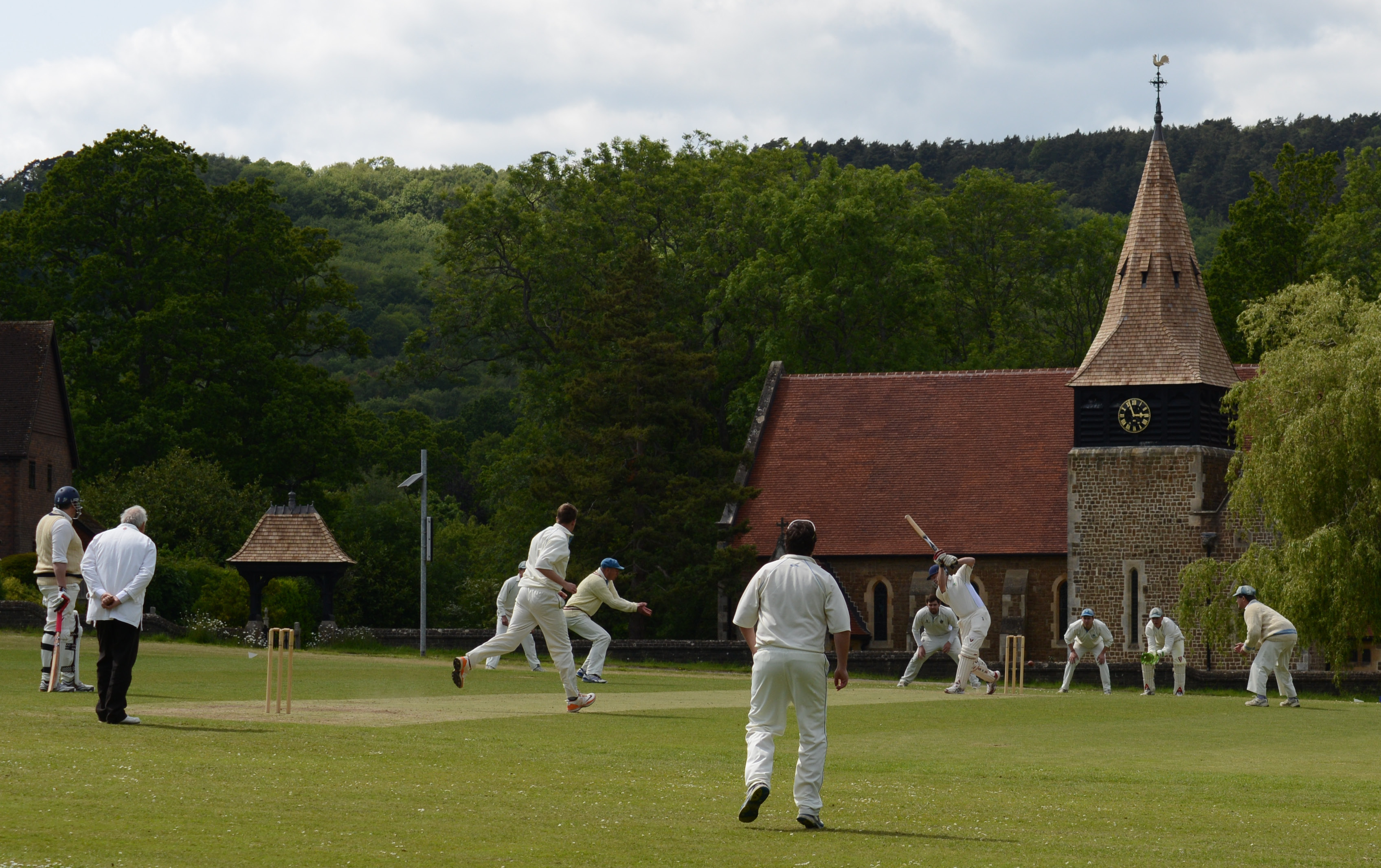 Grayswood v Tilford in the I Anson league 30 May 2015 Tilford fielding